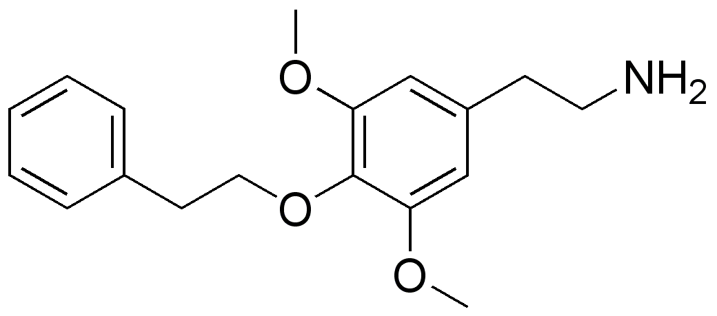 Chemical structure of Phenescaline, drawn in ChemDraw by User:Mark PEA.